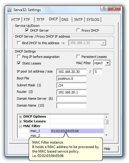 DHCP Server